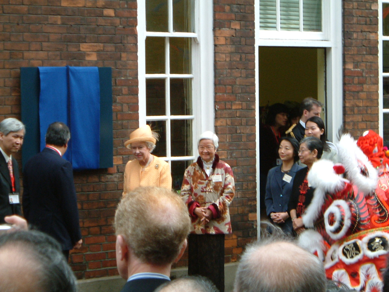 Dr. Therese Wai Han Shak beside Queen Elizabeth II at the opening of Camden Chinese Community Centre, 9 Tavistock Pl, London WC1H 9SN